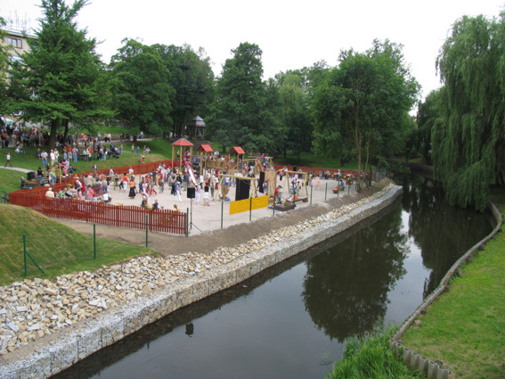 Center City Park.